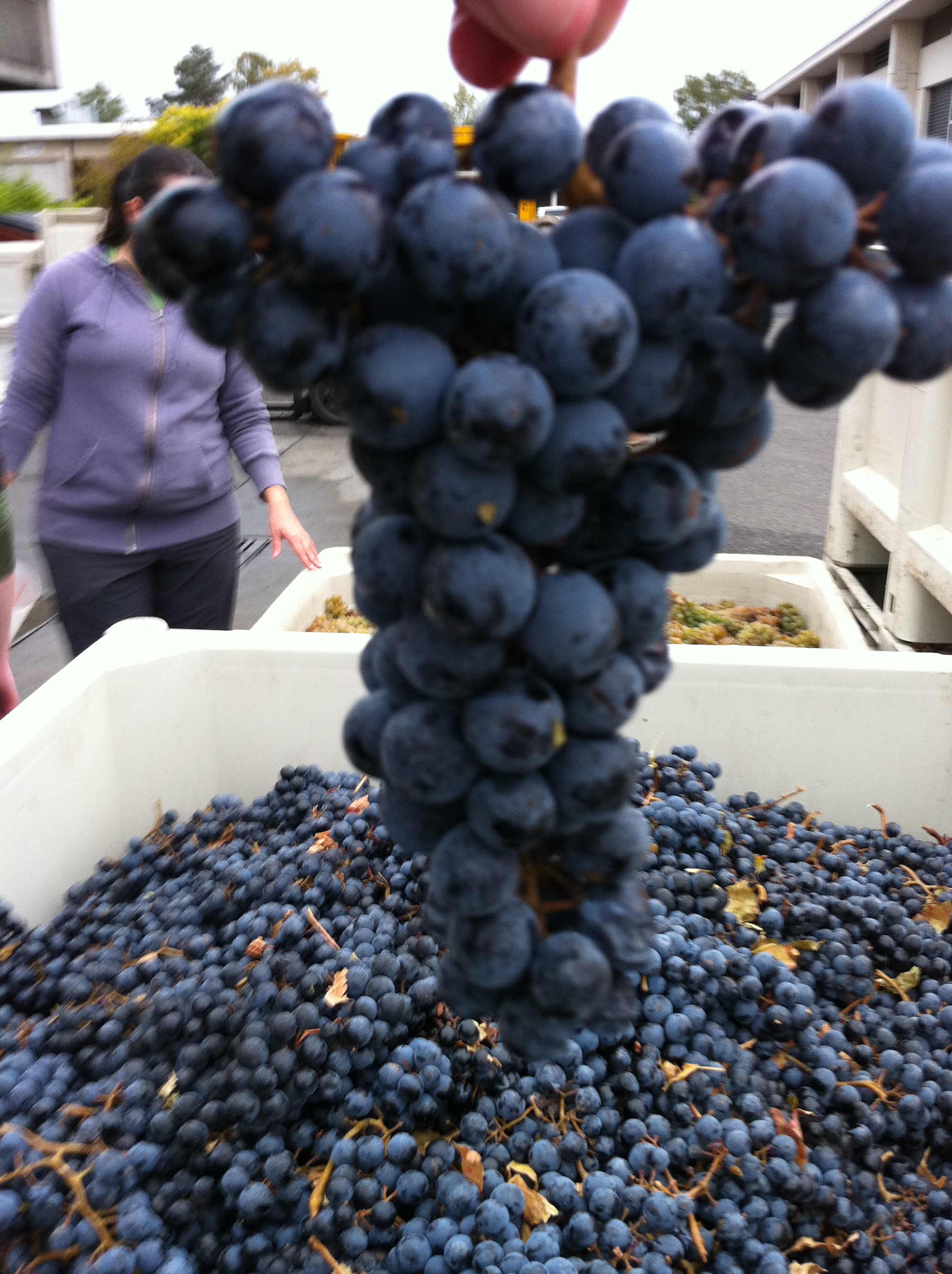 Cluster of Cinsault grapes grown in the Columbia Valley of Washington State